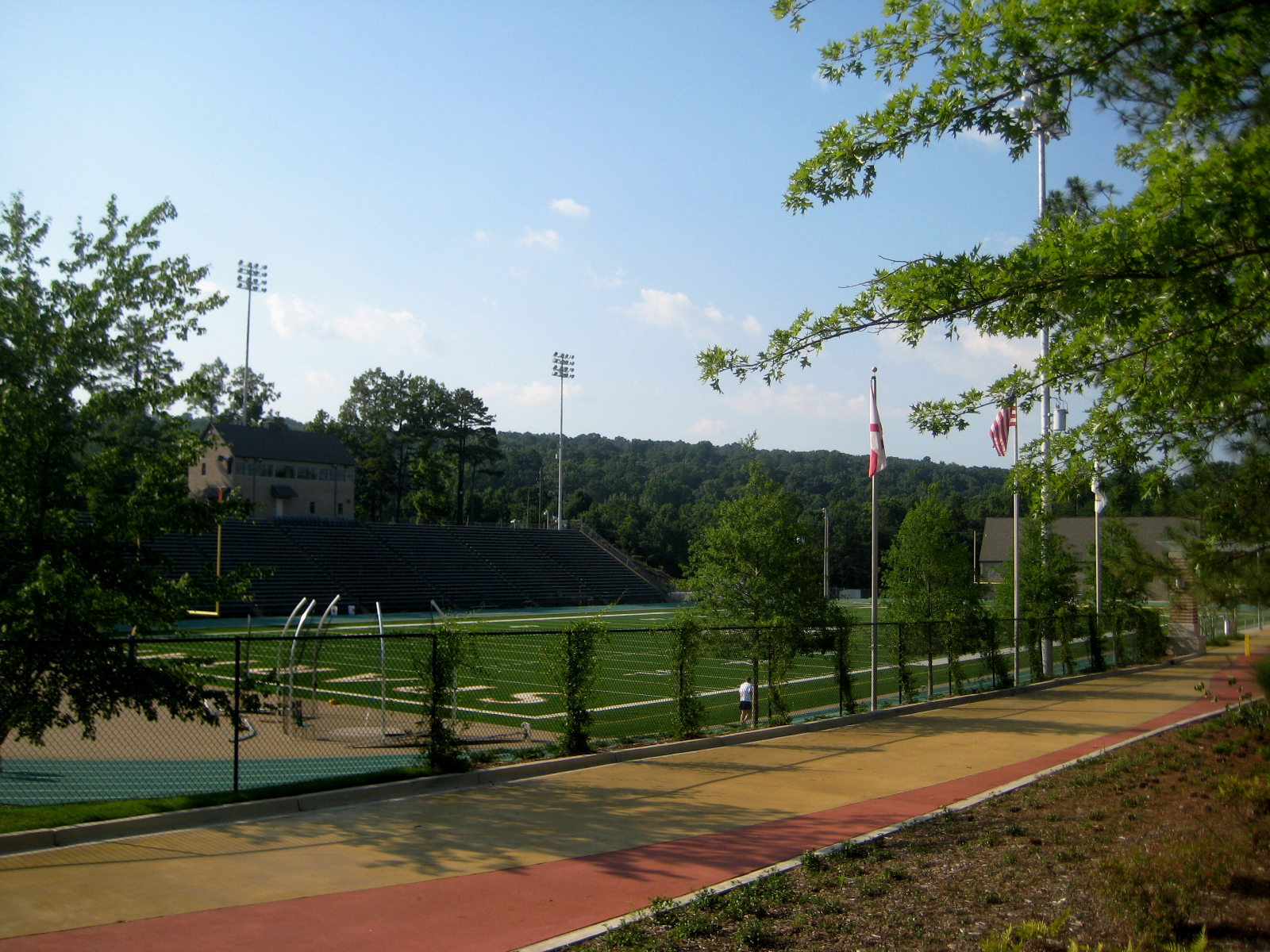 THe campus of Mountain Brook High School.